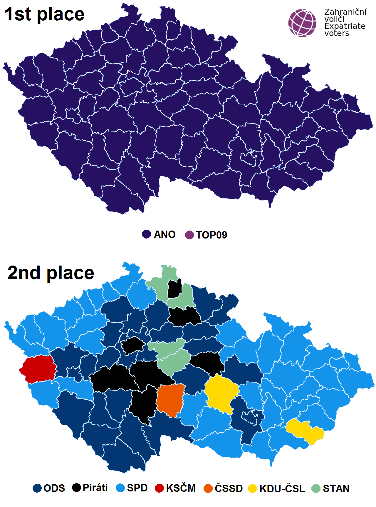 First and second place in every district in 2017 Czech legislative election.